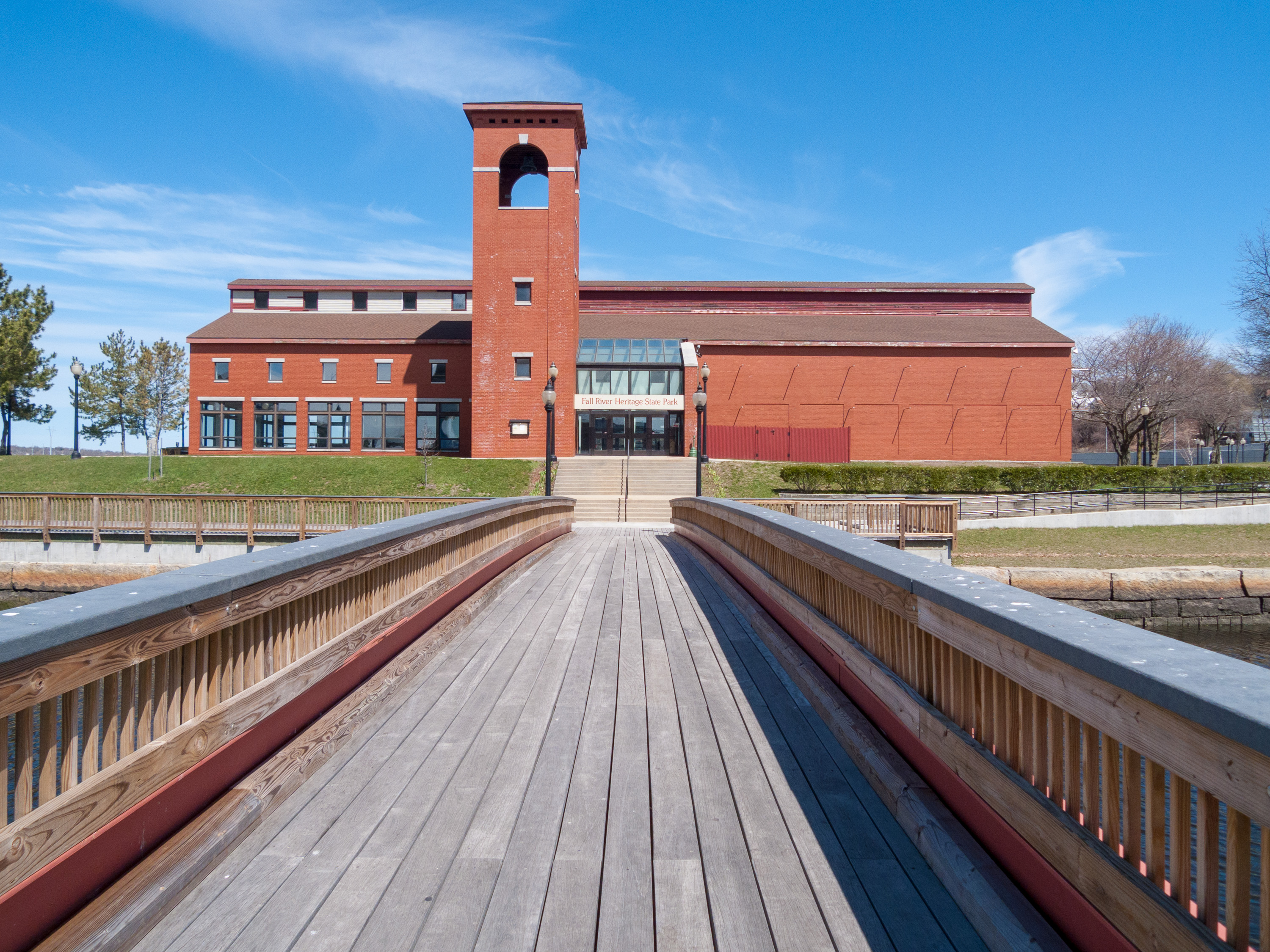 Fall River Heritage State park visitor center Massachusetts